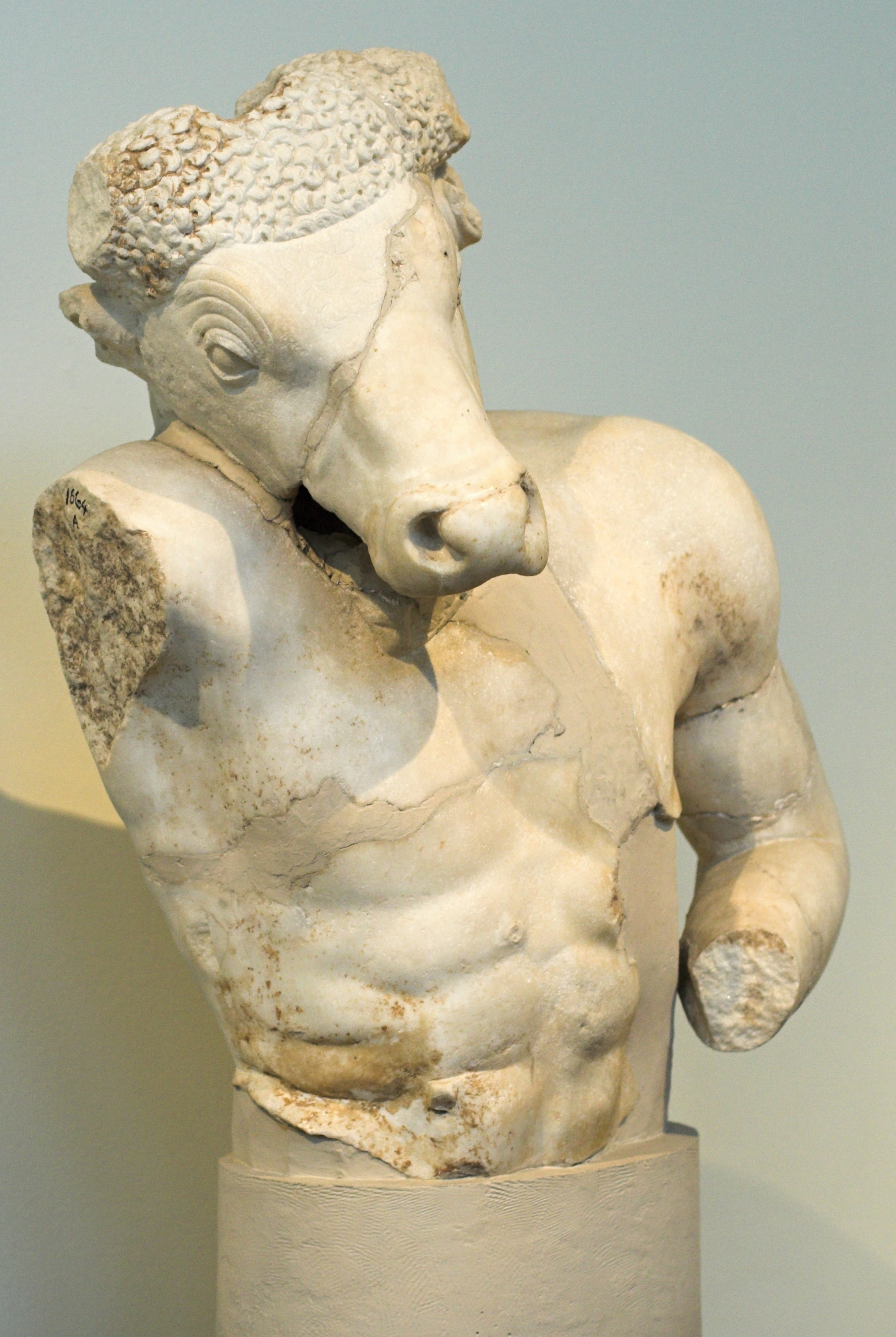 Torso of Minotaur, pentelic marble; work from Roman times, a copy of the Early Hellenistic statue of Myron's sculptural group. Finding: Athens, Plaka. National Archaeological Museum of Athens N 1664a.